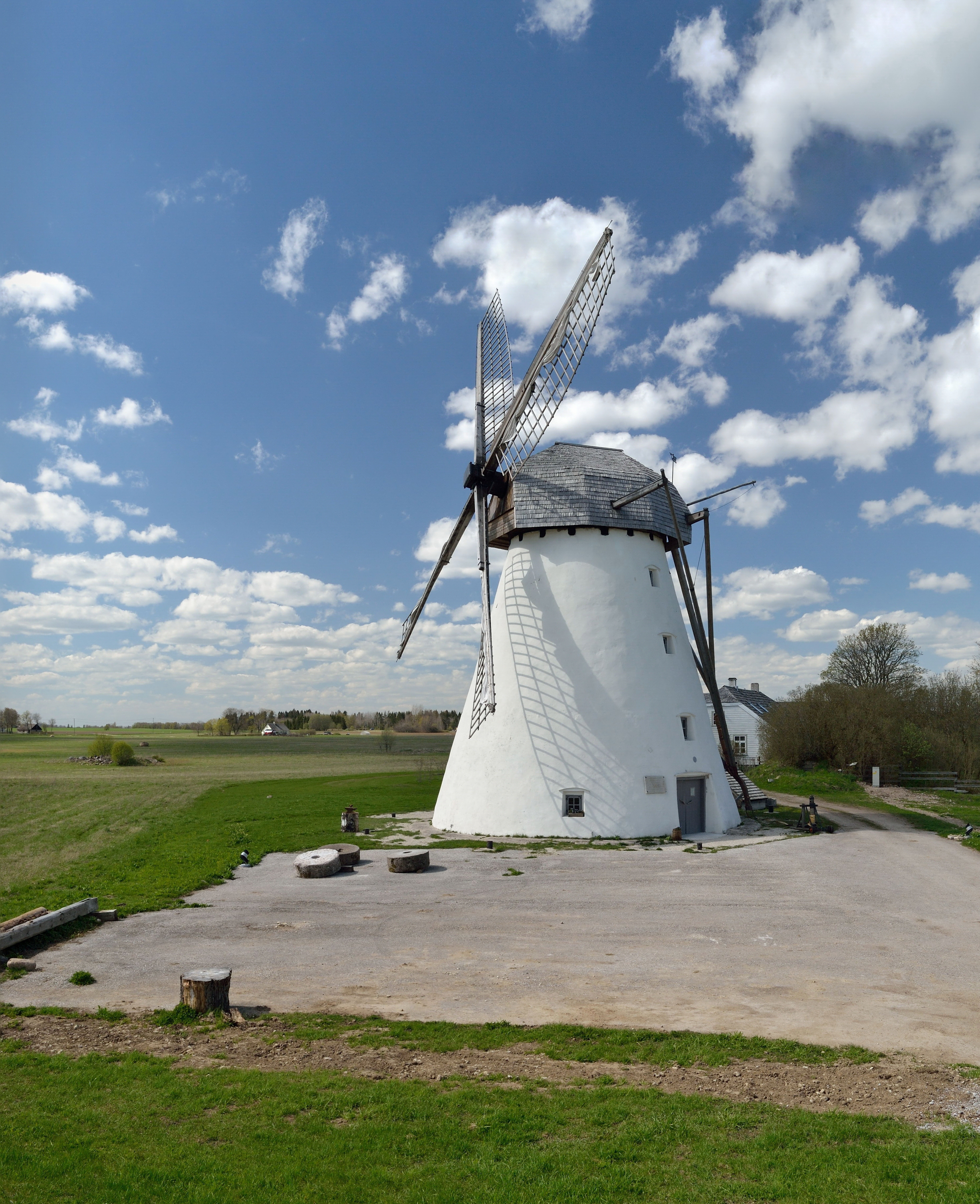 Seidla manor windmill